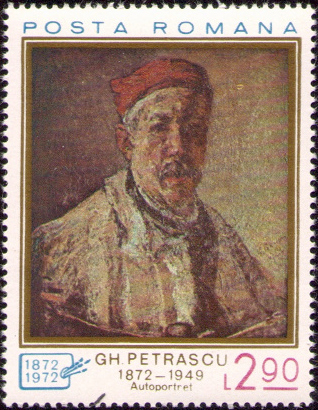 1972 Romanian Post, 2,90 lei, representing a painting of Gheorghe Petraşcu - Self-portrait